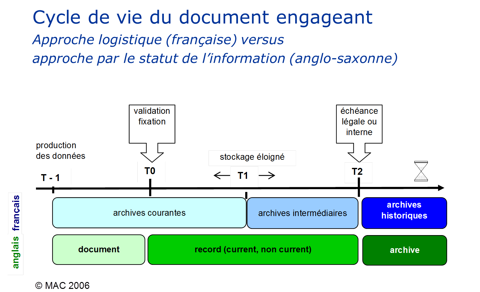 Comparaison of record life cycle from french and anglo-saxon point of view